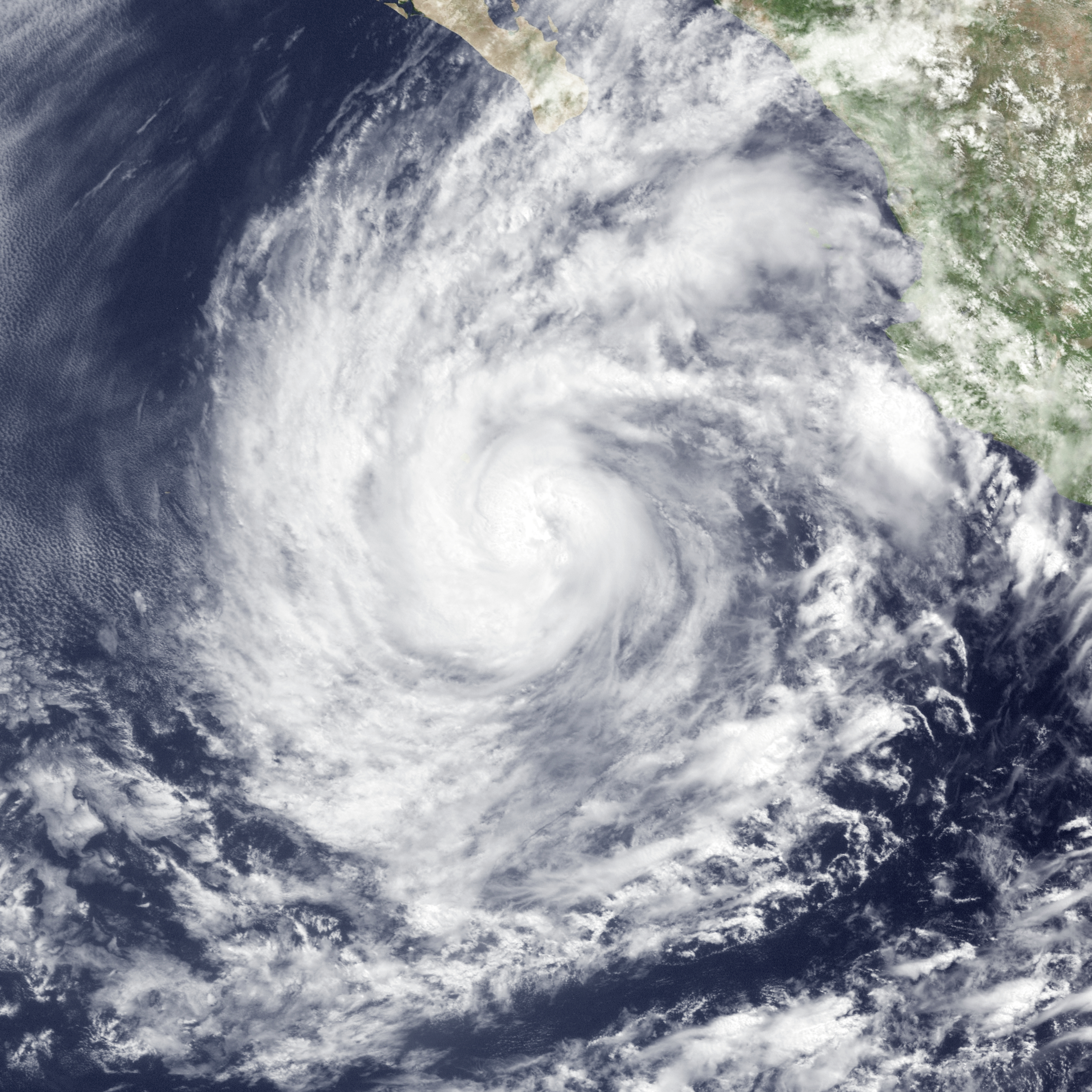 Hurricane Adrian near peak intensity shortly before its upgrade to a minimal Category 2 hurricane off the coast of Mexico on June 20, 1999.